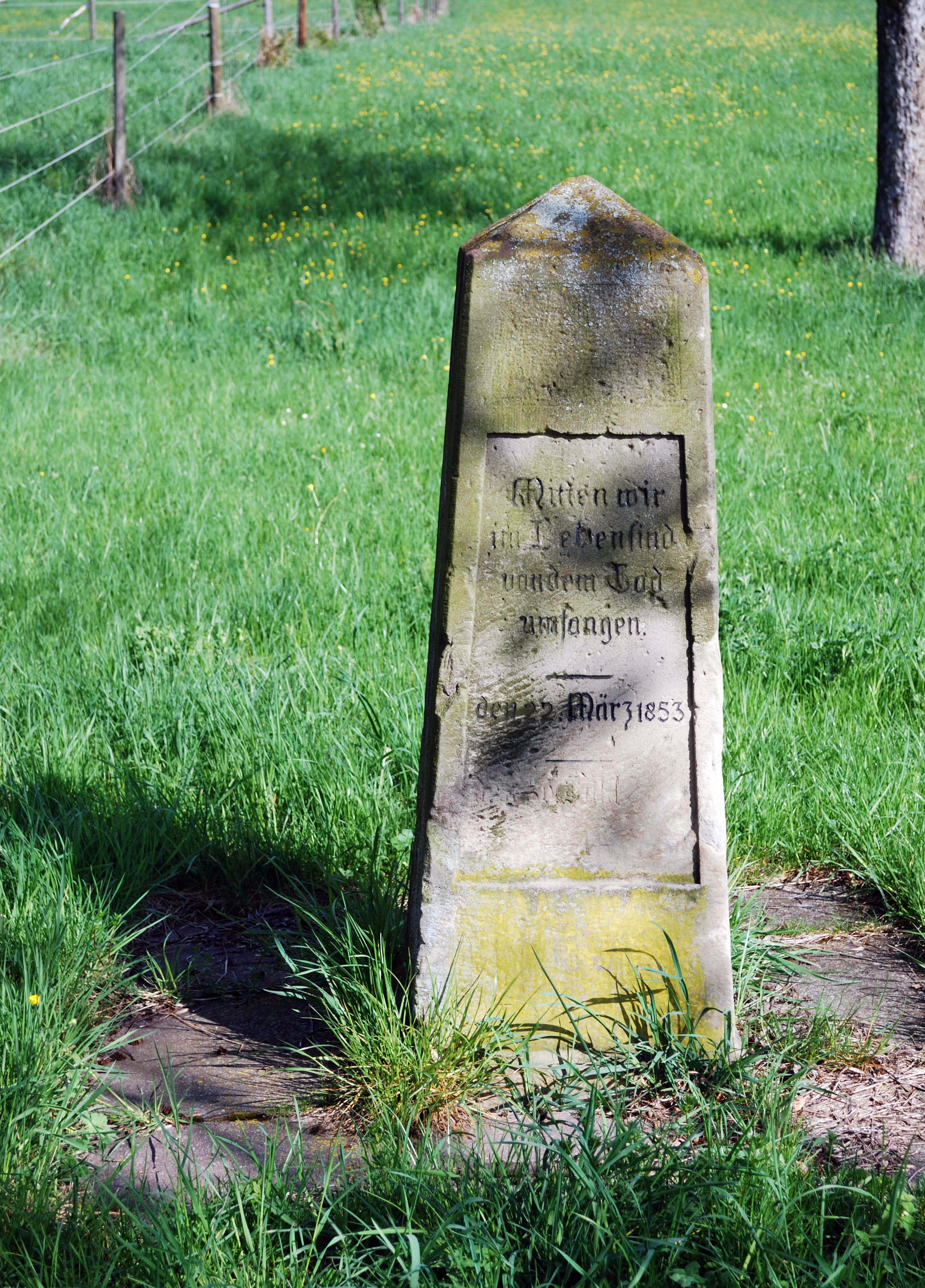 The Köllner memorial stone for Karl Köllner, administrator of the community guest house and of the children's home in Korntal. Karl Köllner collapsed and died here on March 22, 1853.